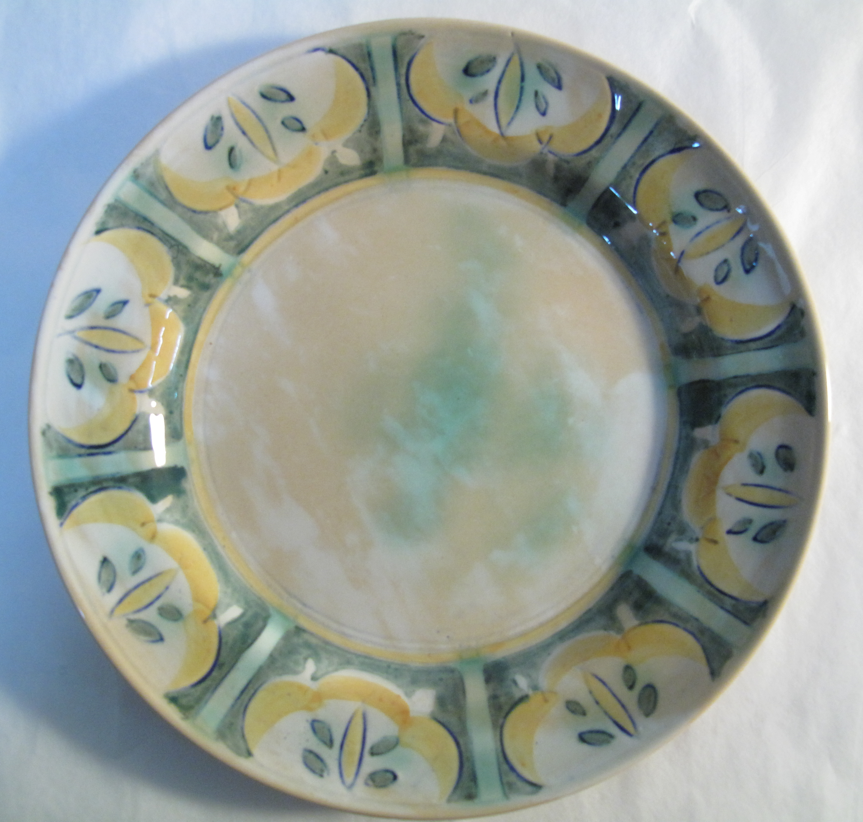 Dinnerset, part of, abstract in blue, yellow and green, design by Sir Frank Brangwyn each piece decorated with stylized foliate motifs in blue, green, yellow and white glaze on a pale terracotta background (Printed facsimile signature and maker’s marks Royal Doulton England Designed by F. Brangwyn R.A.)